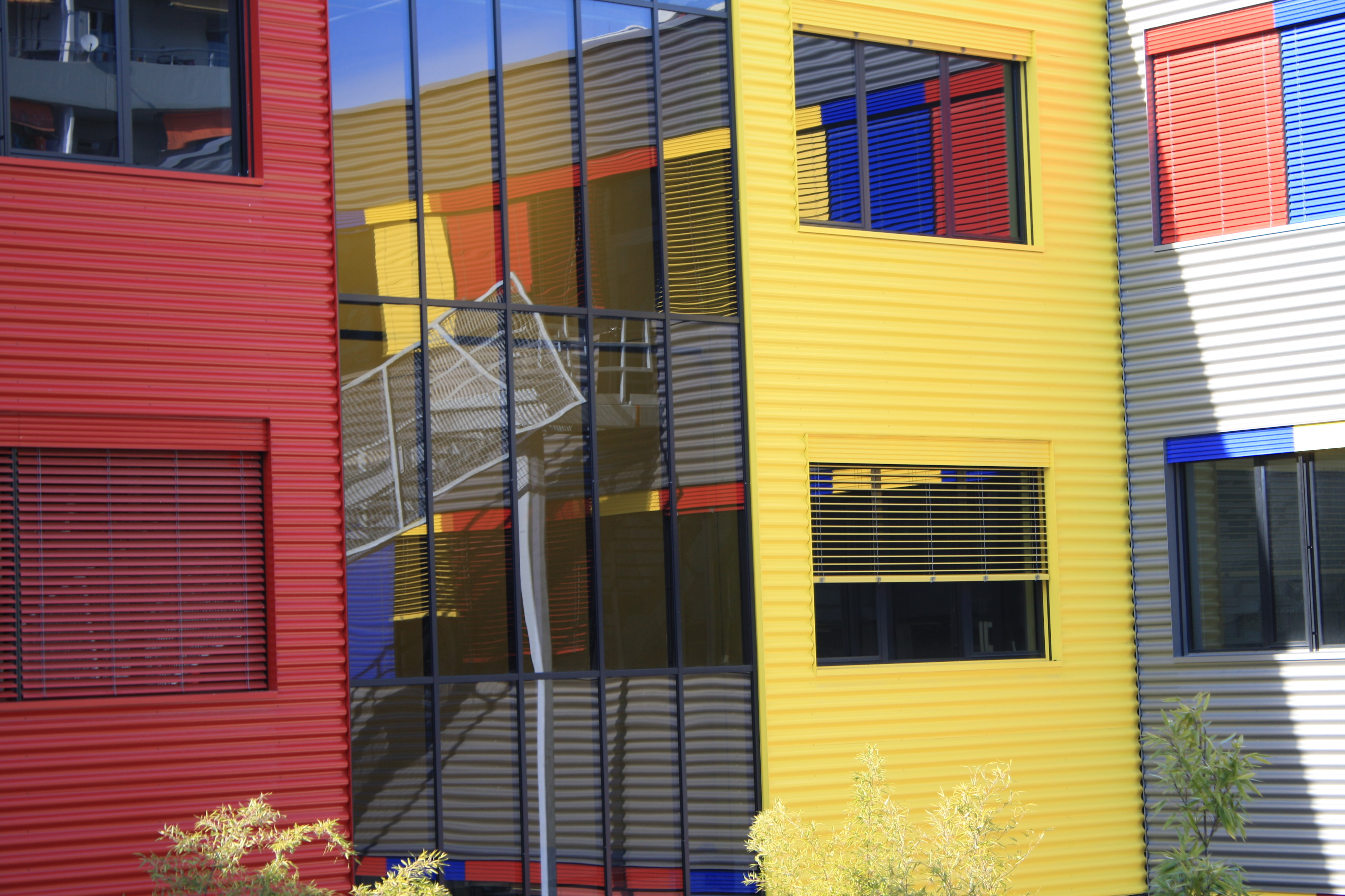 Renens, Vaud, Switzerland